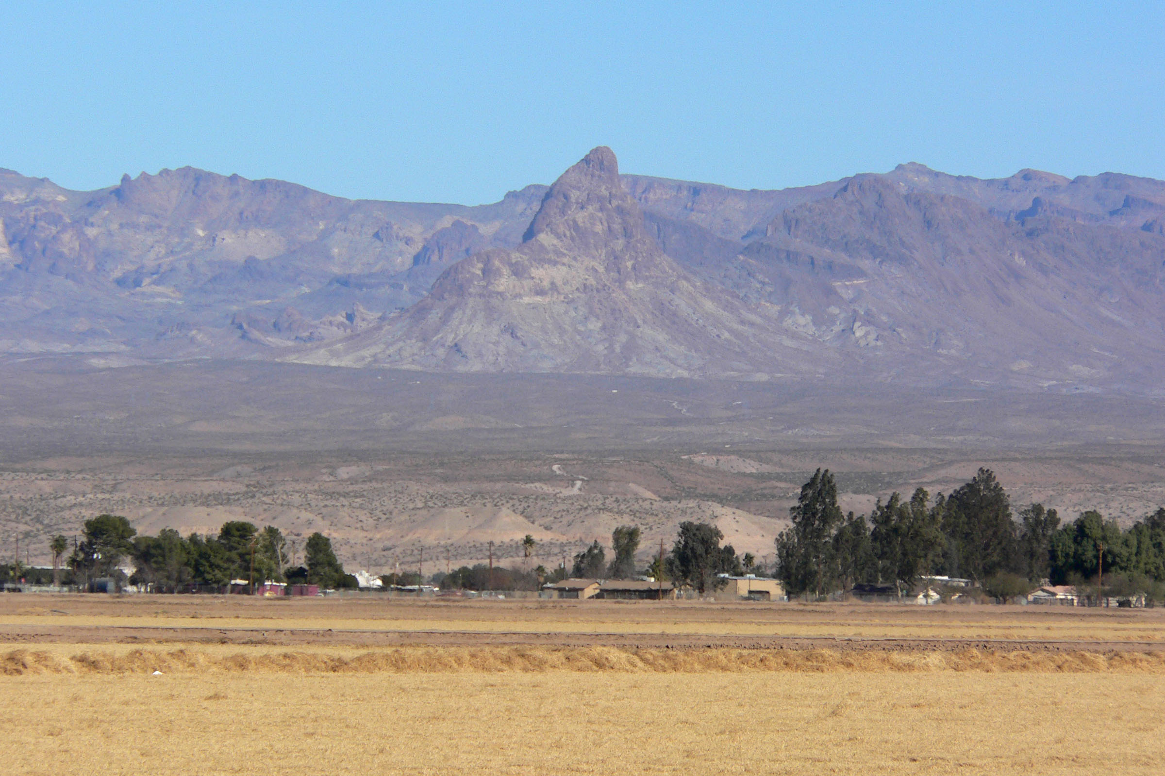 The Boundary Cone, a peak, and landmark, seen from Mohave Valley.View looking east, northeast. Oatman, Arizona is adjacent to left (north), only 3-5 miles from Boundary Cone. Note the extensive alluvial fan from the mountain drainage.